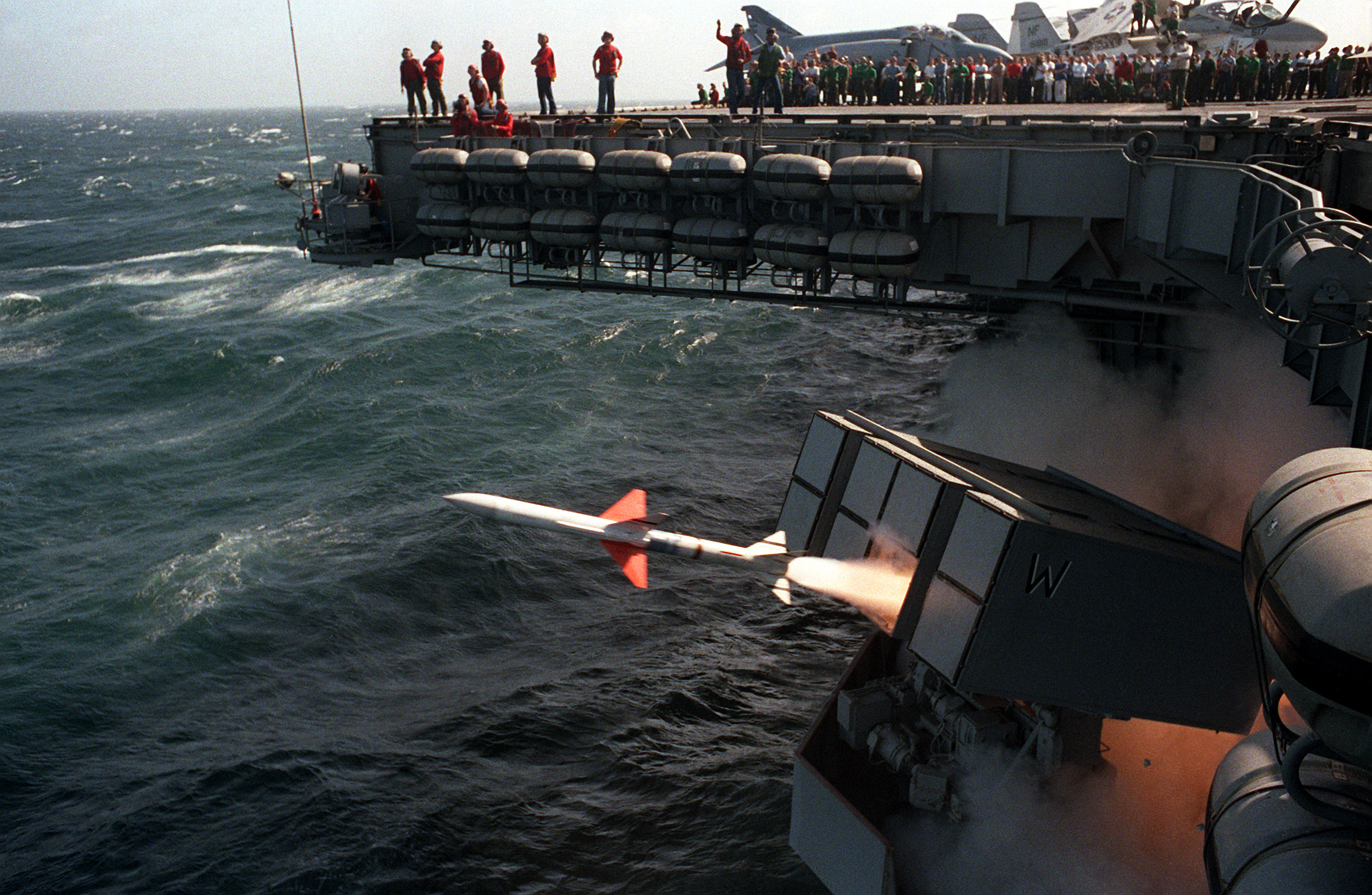 Crewmen watch from the flight deck as a RIM-7 Sea Sparrow missile is launched from a Mark 25 Basic Point Defense Missile System (BPDMS) launcher on the aircraft carrier USS Midway (CV-41). Note: The date given "1 January 1993" has to be incorrect, as Midway was decommissioned on 11 April 1992. The Grumman KA-6D Intruder (BuNo 151818), visible in the background, was assigned to Attack Squadron 115 (VA-115) "Eagles" with the squadron code "NF-517" aboard the Midway between 1981 and 1983.